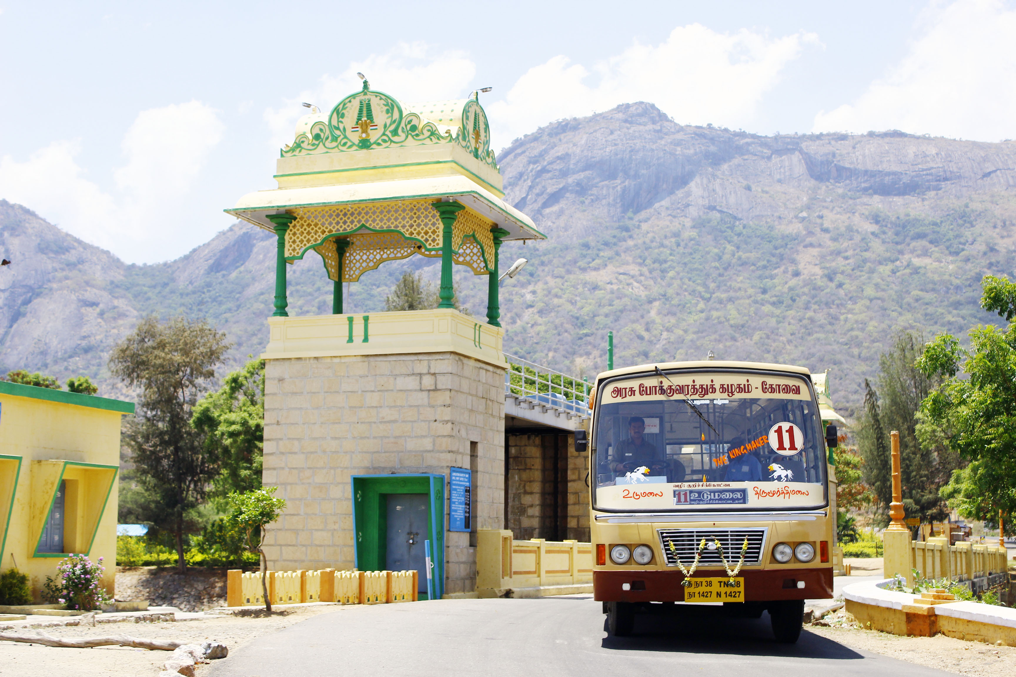 Thirumoorthi reservoir in Udumalaipettai